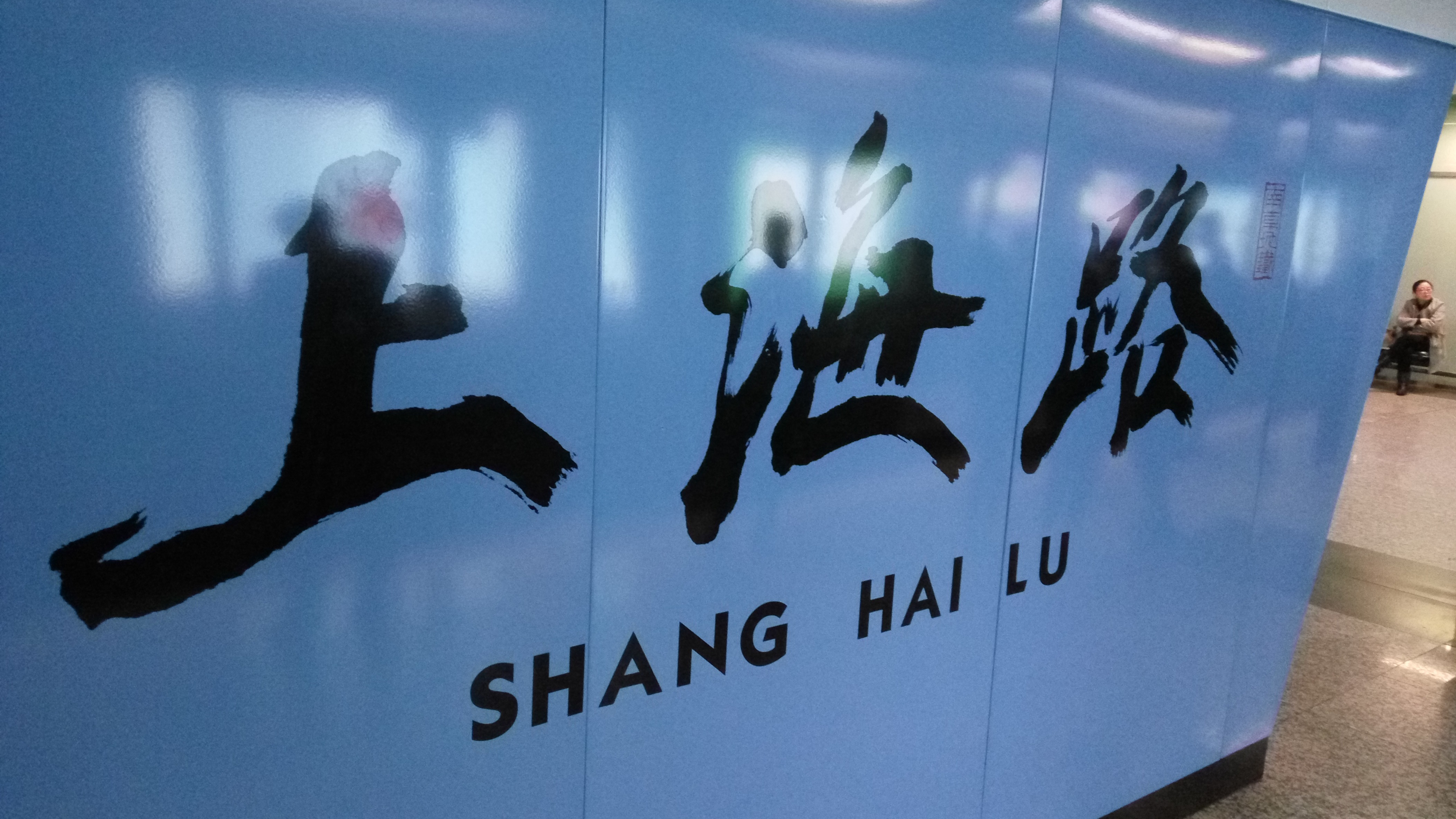 An image of the platform calligraphy sign of Shanghailu Station in Nanjing, China